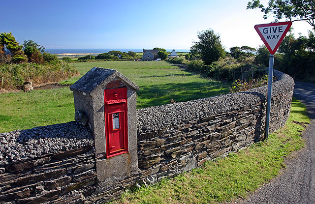 Ronague. At the prominent junction with the B39, looking south towards Ronague Chapel. A Victorian post box.